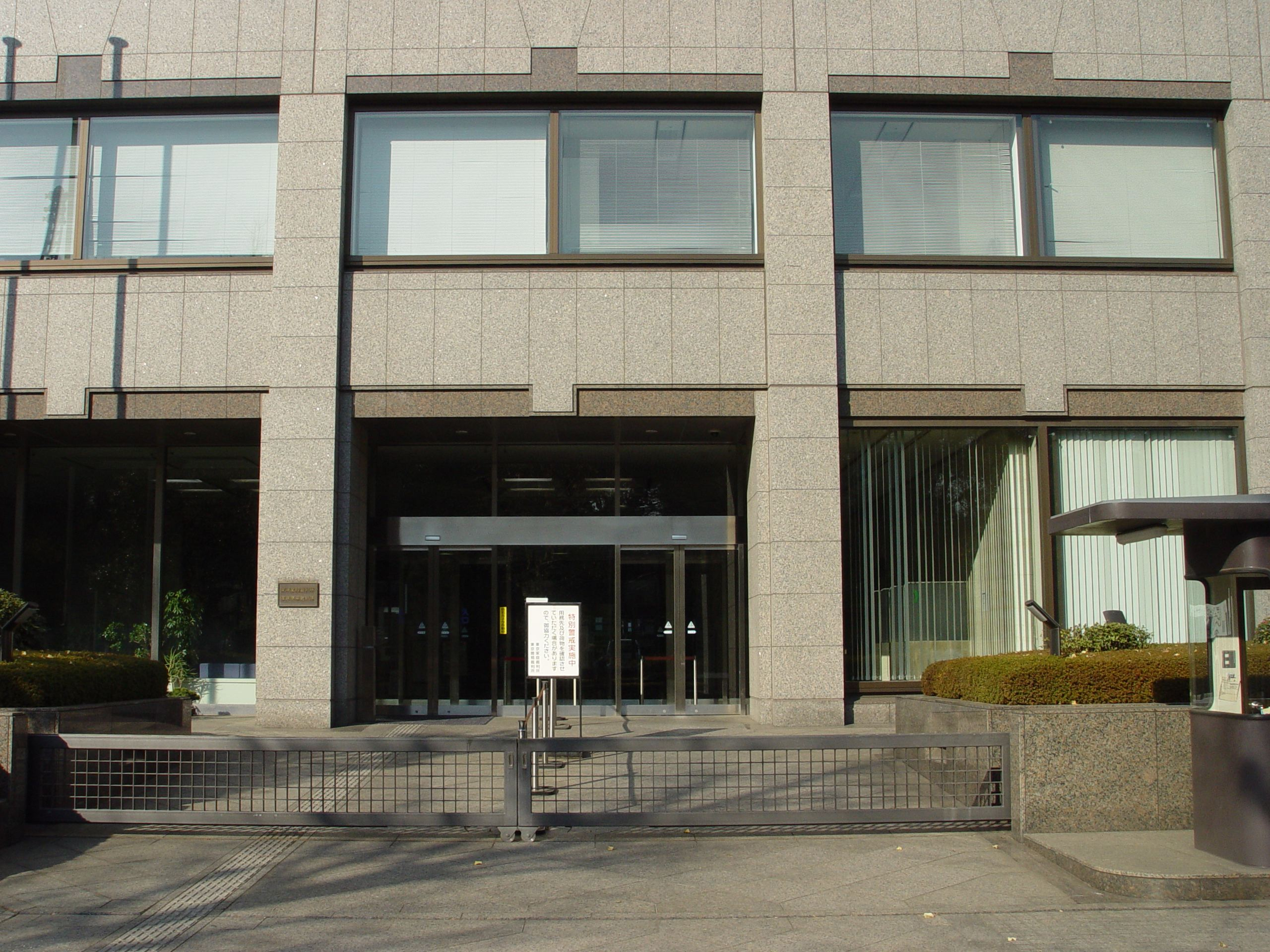 Public office building of Japan: Tokyo summary court 庁舎： 東京簡易裁判所